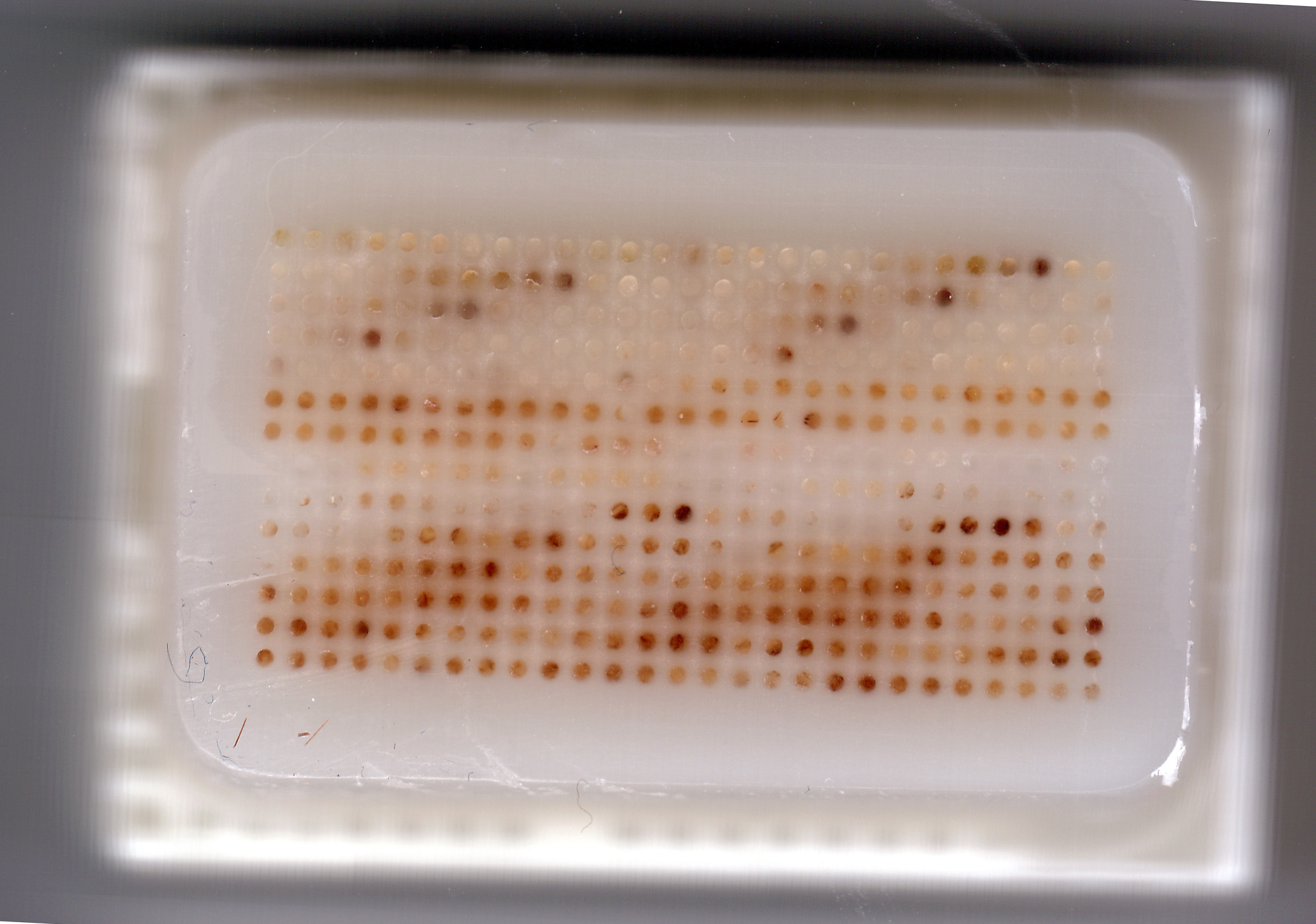 Low density 0.6um tissue microarray.